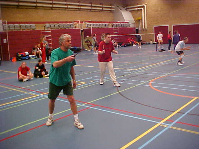 Men playing badminton.